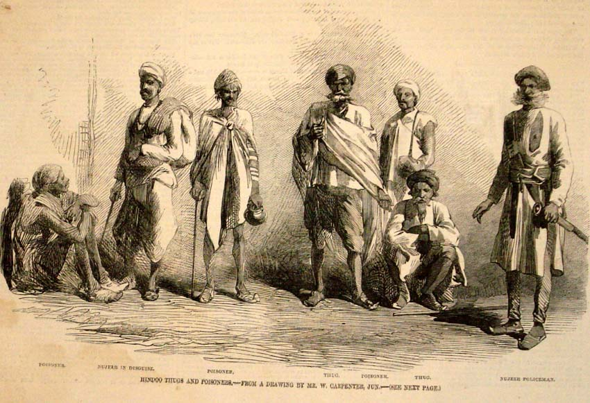 Image Caption: HINDOO THUGS AND POISONERS - FROM A DRAWING BY MR. W. CARPENTER